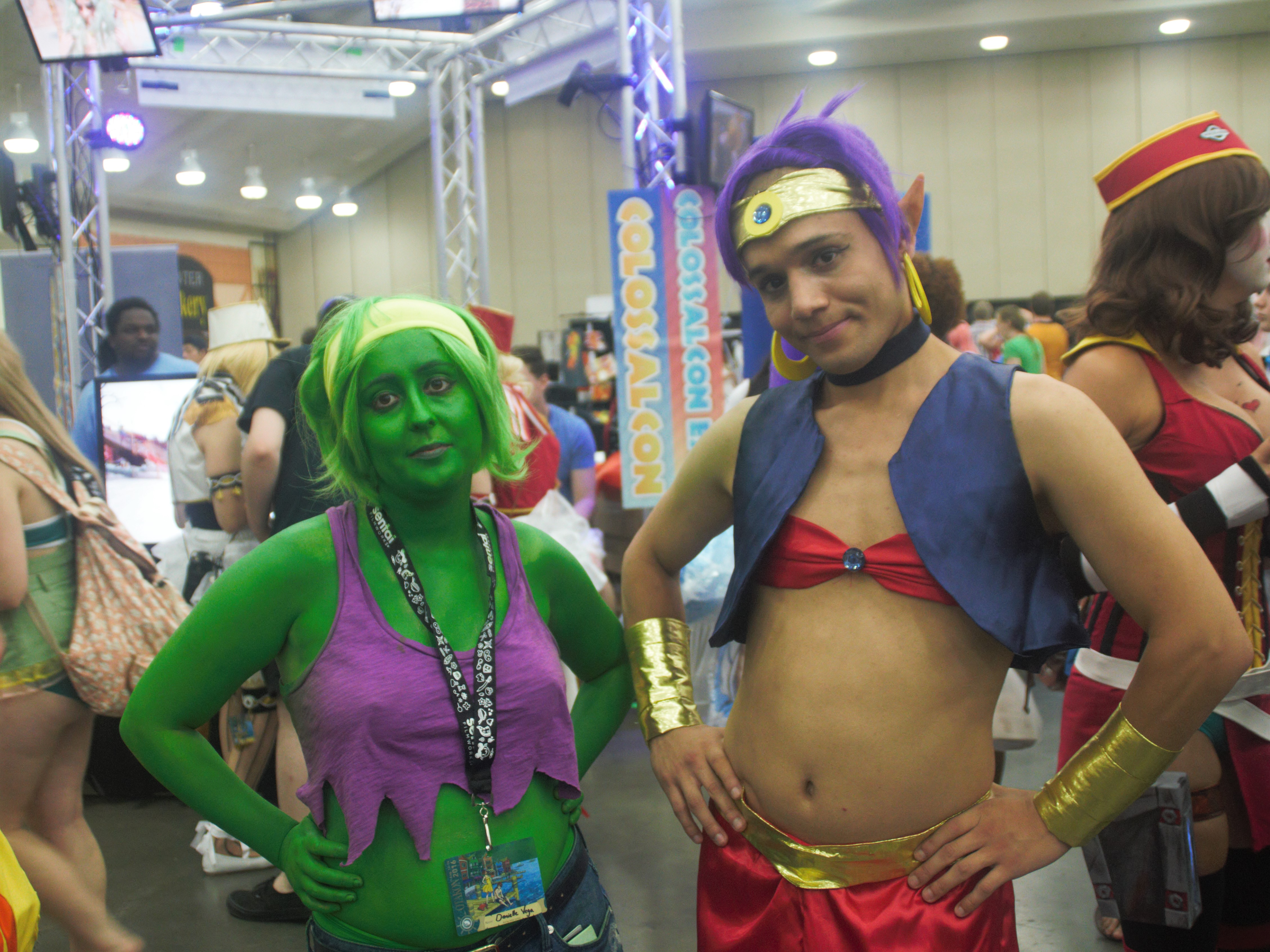 Cosplay of Rottytops and Shantae from Shantae and the Pirate's Curse at Otakon 2016